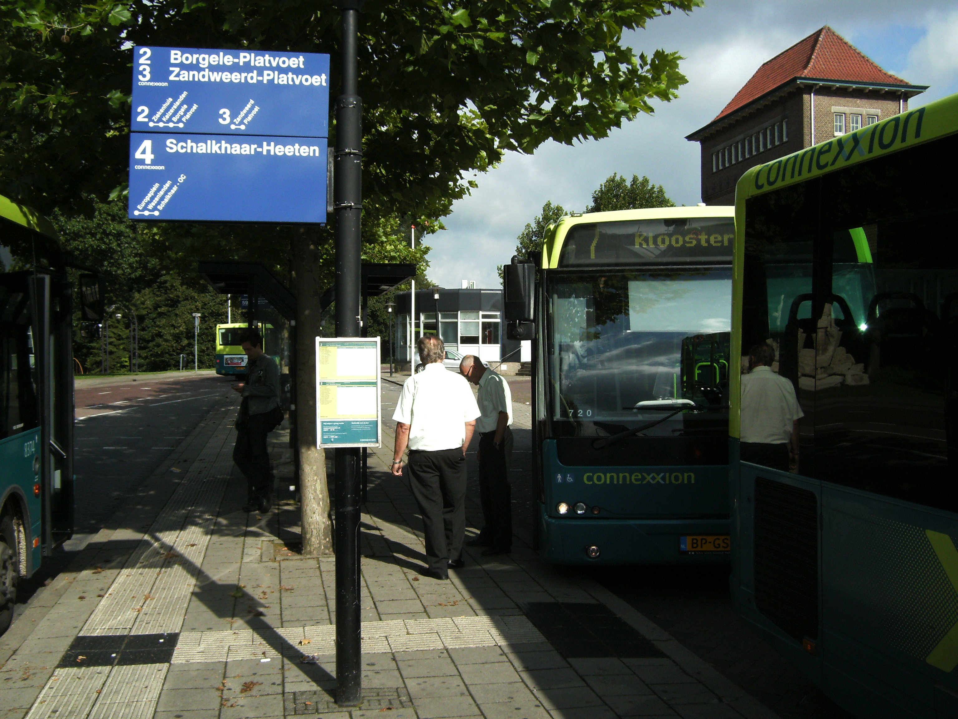 Bus station in Deventer, the Netherlands.